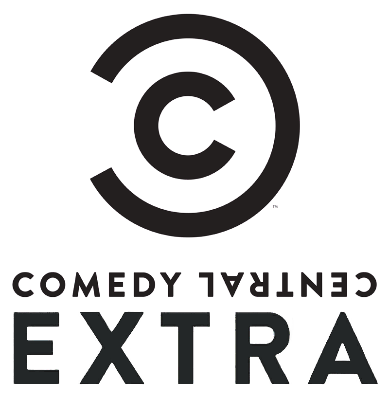 Logo of the channel Comedy Central Extra